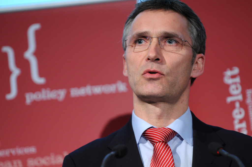 Picture of Pirme Minister of Norway, Jens Stoltenberg.